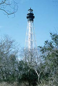 1995 National Park Service photograph of Cape Charles Light (original here) converted to PNG format